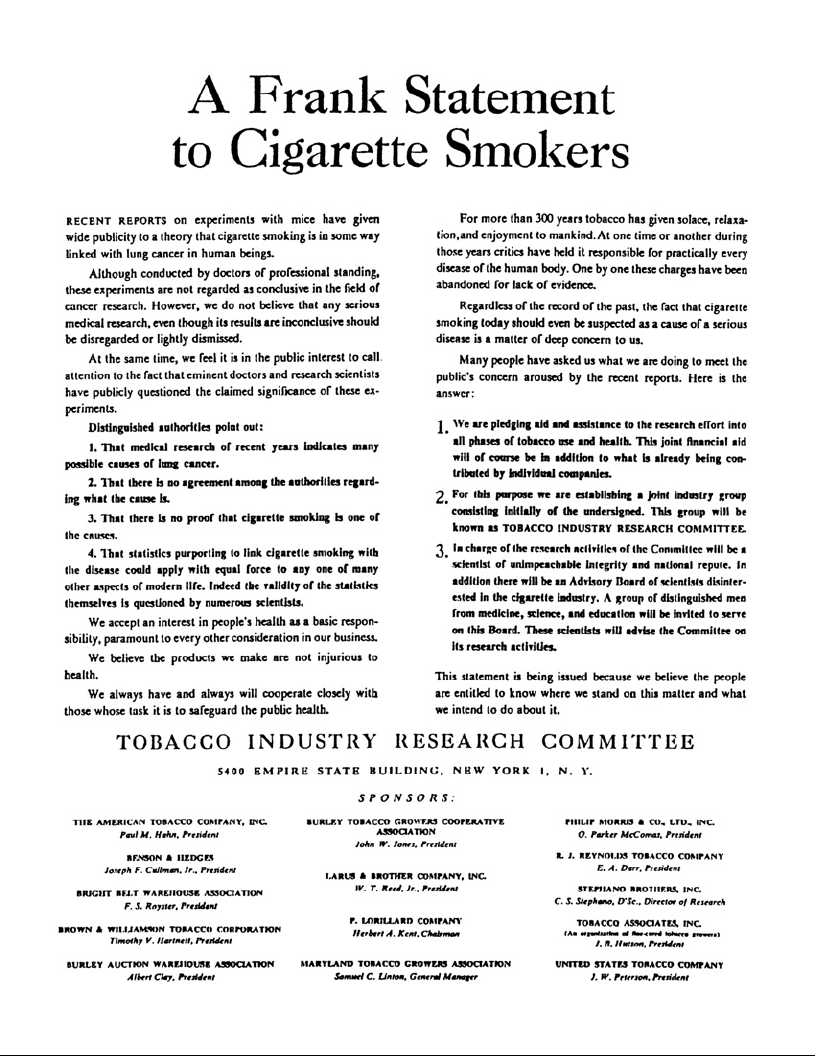 Advertisement published in response to evidence that smoking causes lung cancer